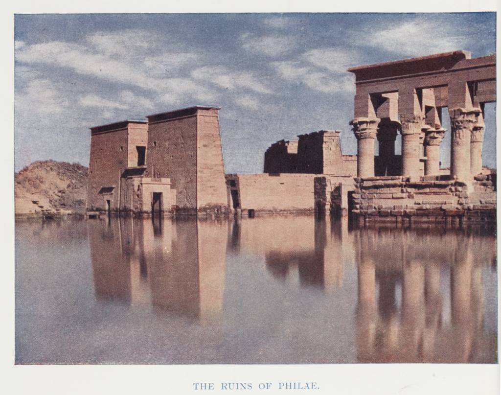 Full-color photograph of the ruins of two partially submerged temples at Philae in 1910 - from the Aswan Low Dam flooding them.